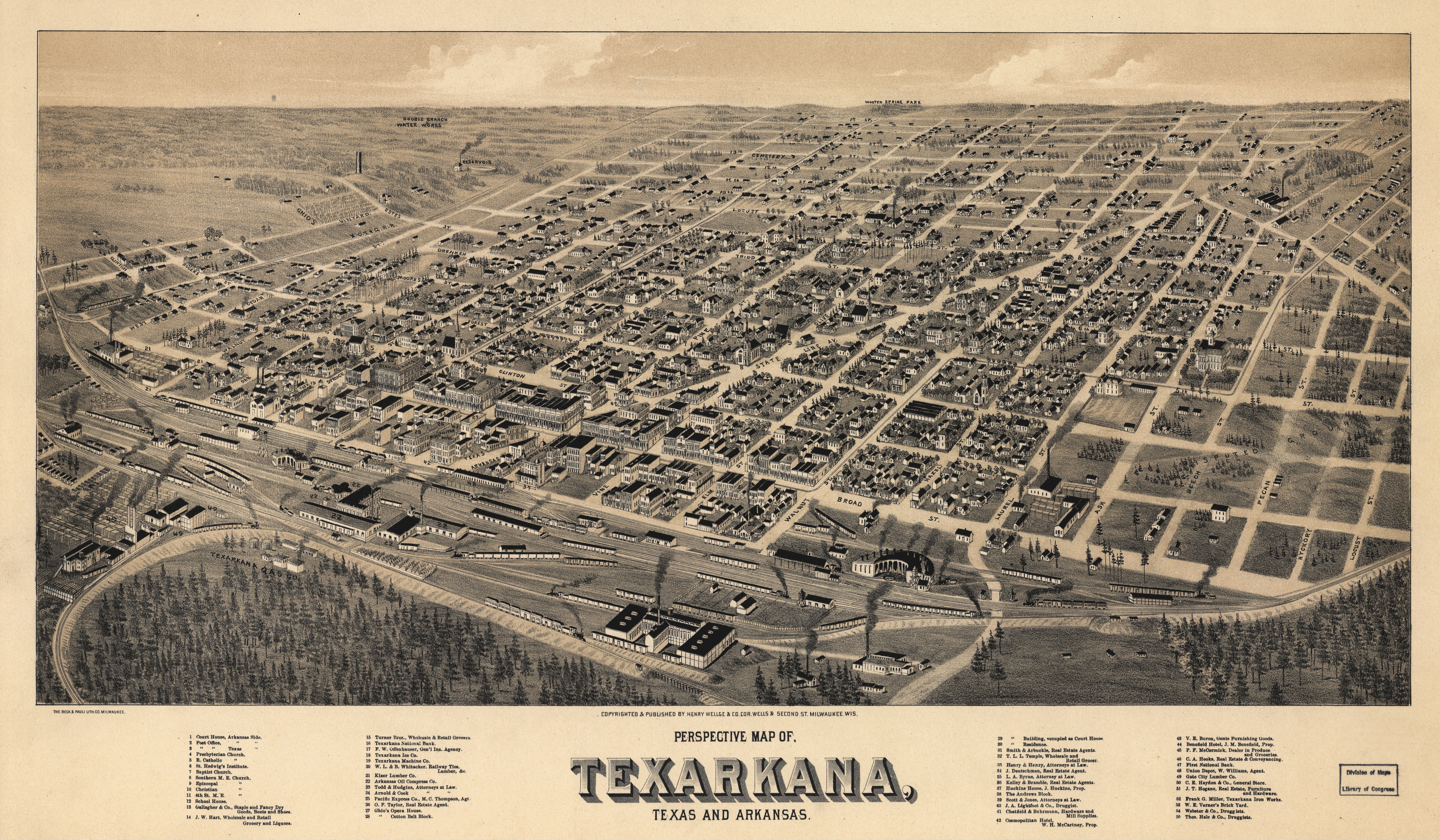 Texarkana in 1888. Perspective Map of Texarkana, Texas and Arkansas, 1888. Toned lithograph, 15 x 26.2 in., by Beck & Pauli, Milwaukee. Published by Henry Wellge & Co., Cor. Wells & Second St. Milwaukee, Wis. Geography and Map Division, Library of Congress.